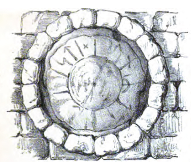 The runestone Sö 98. The inscription reads ... × risti × run × Rft... .... In English "... carved the runes in memory of ..." 39 cm in diameter.